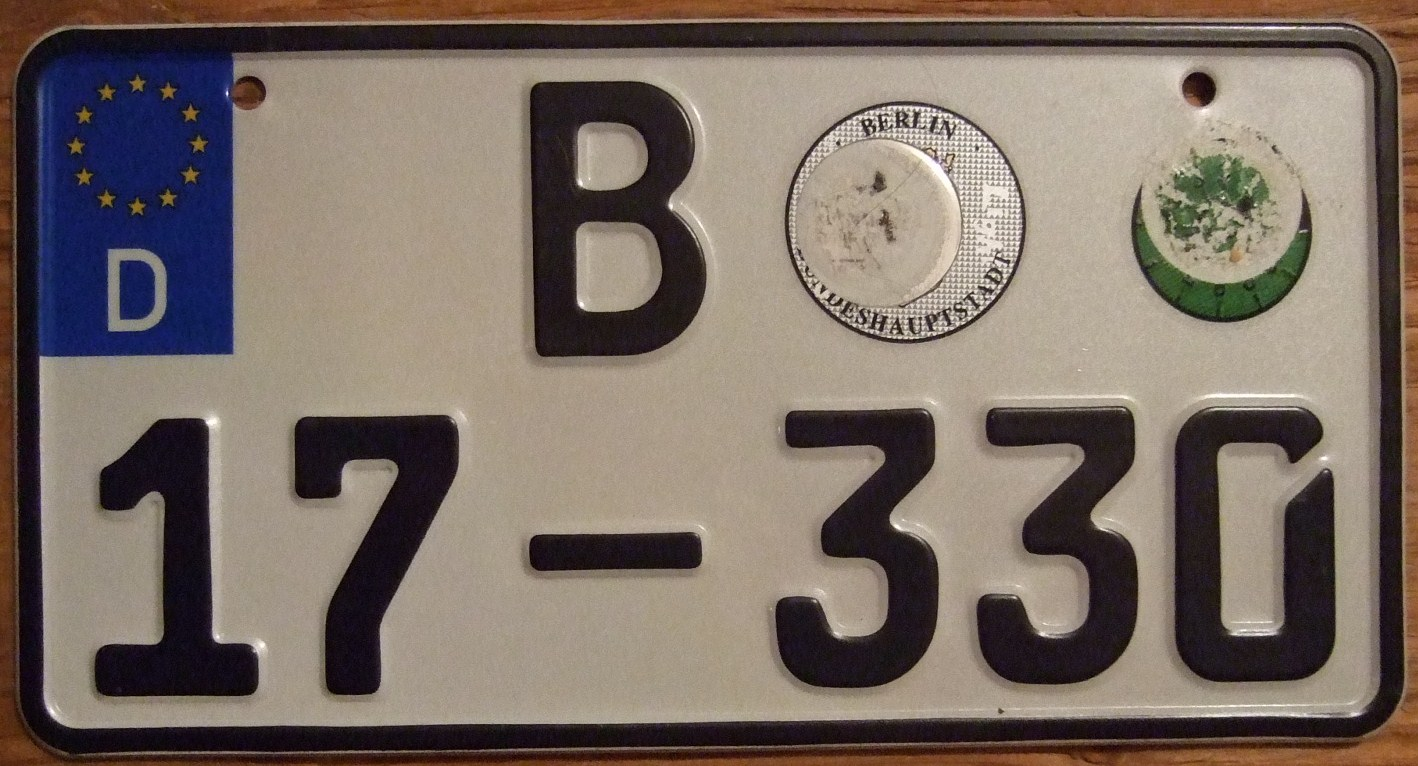 American sized license plate meant to fit the bumper of a US auto. American Consulate in Berlin. These plates do not use a "0" prefix like the Embassy plates.